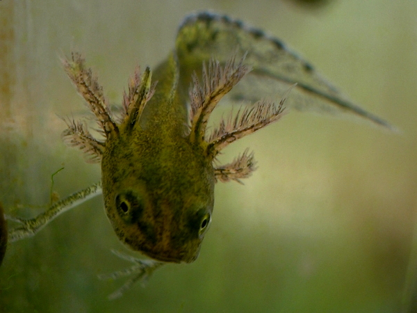 Crested Newt Triturus cristatus larval stage